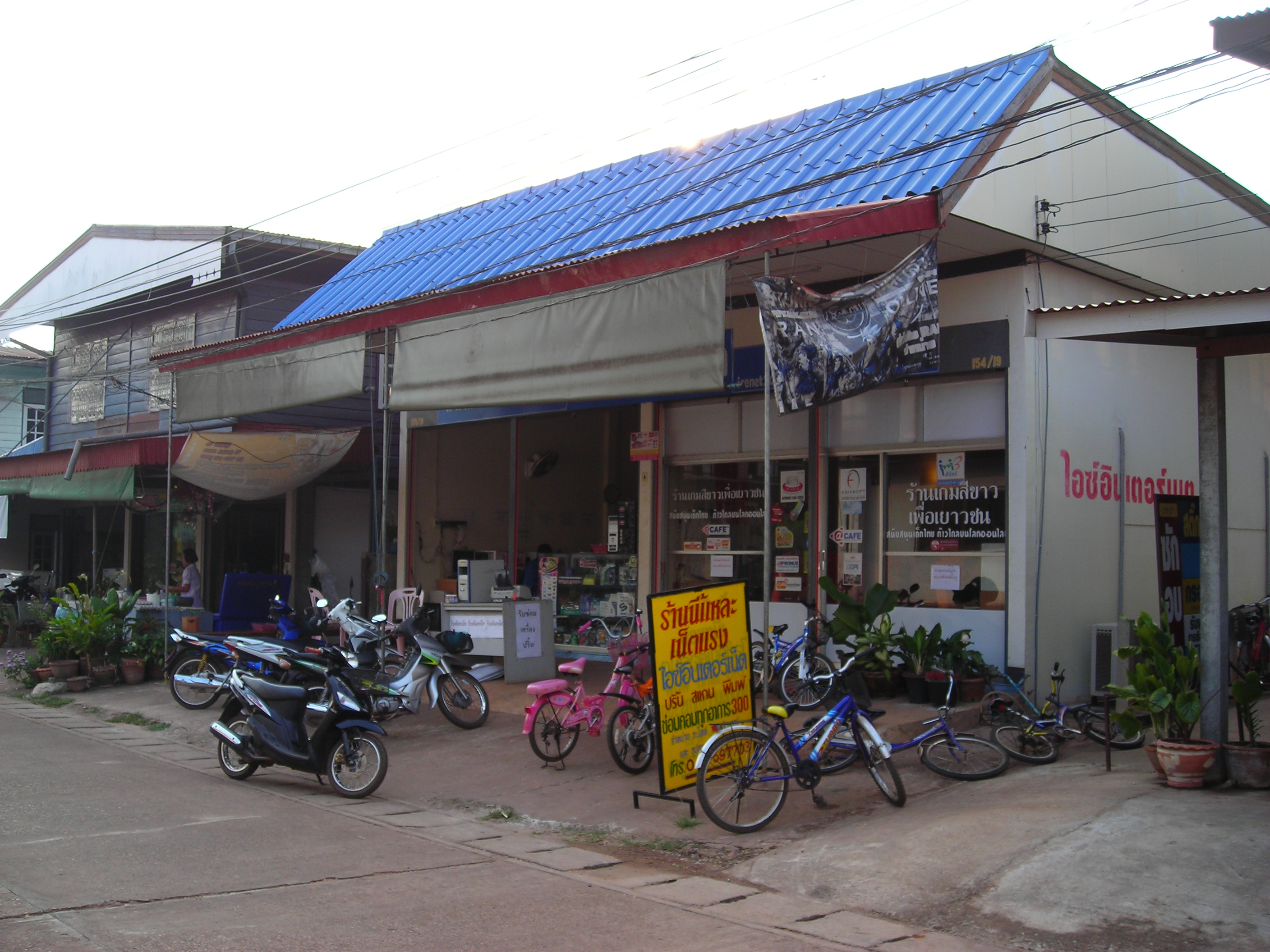 Internet café in Na Wa, Thailand.